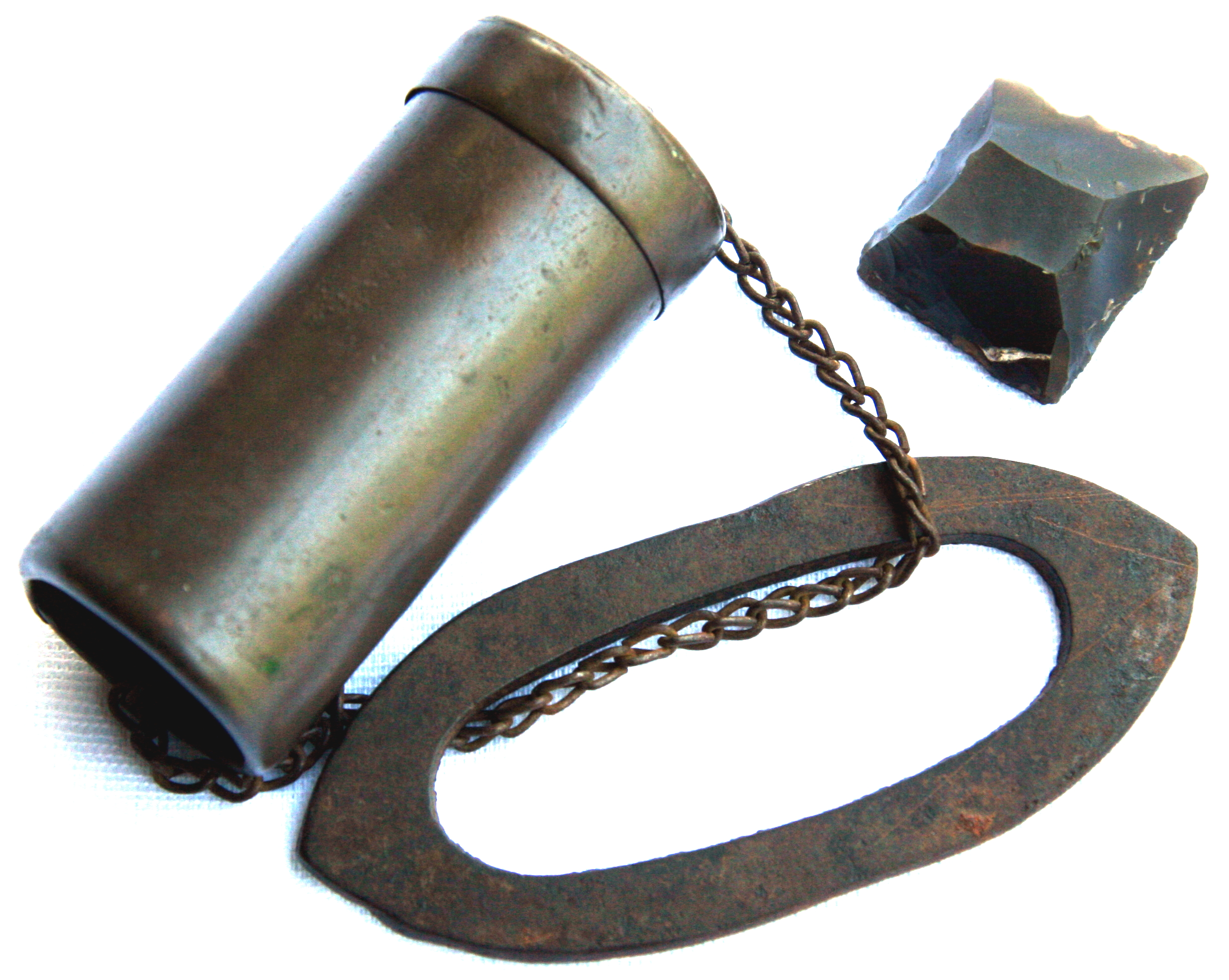 A Tinderbox. A device to start a fire in the days before matches existed.